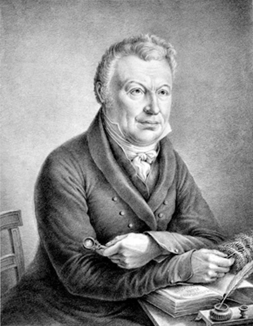 Botanist Franz Karl Mertens (1764-1831)